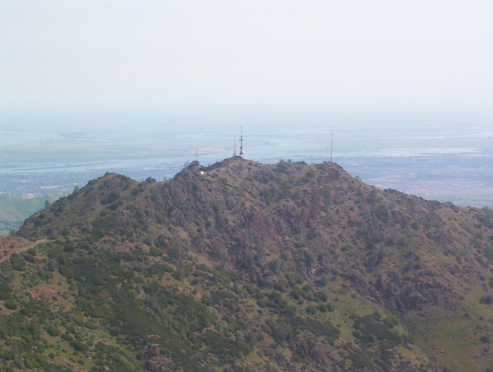 Mount Diablo's North Peak. In the background is Antioch on the left, and Brentwood to the right. The body of water is a portion of the Sacramento River Delta at the confluence of the Sacramento and San Joaquin rivers.